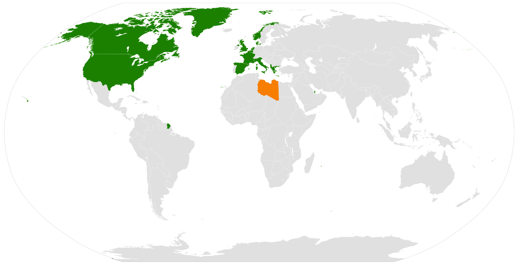 A map of the belligerents of the Libyan war.